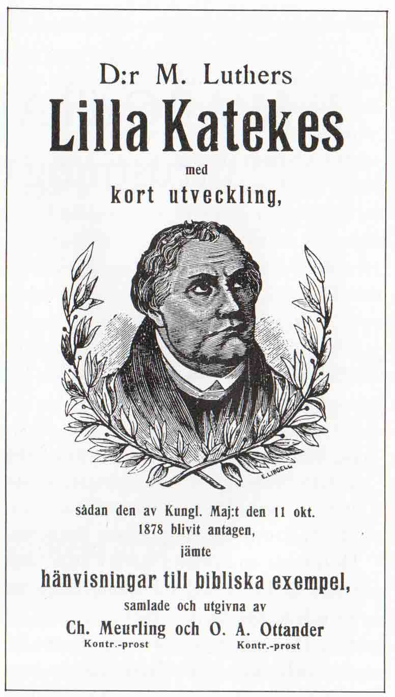 D:r M. Luthers Lilla Katekes